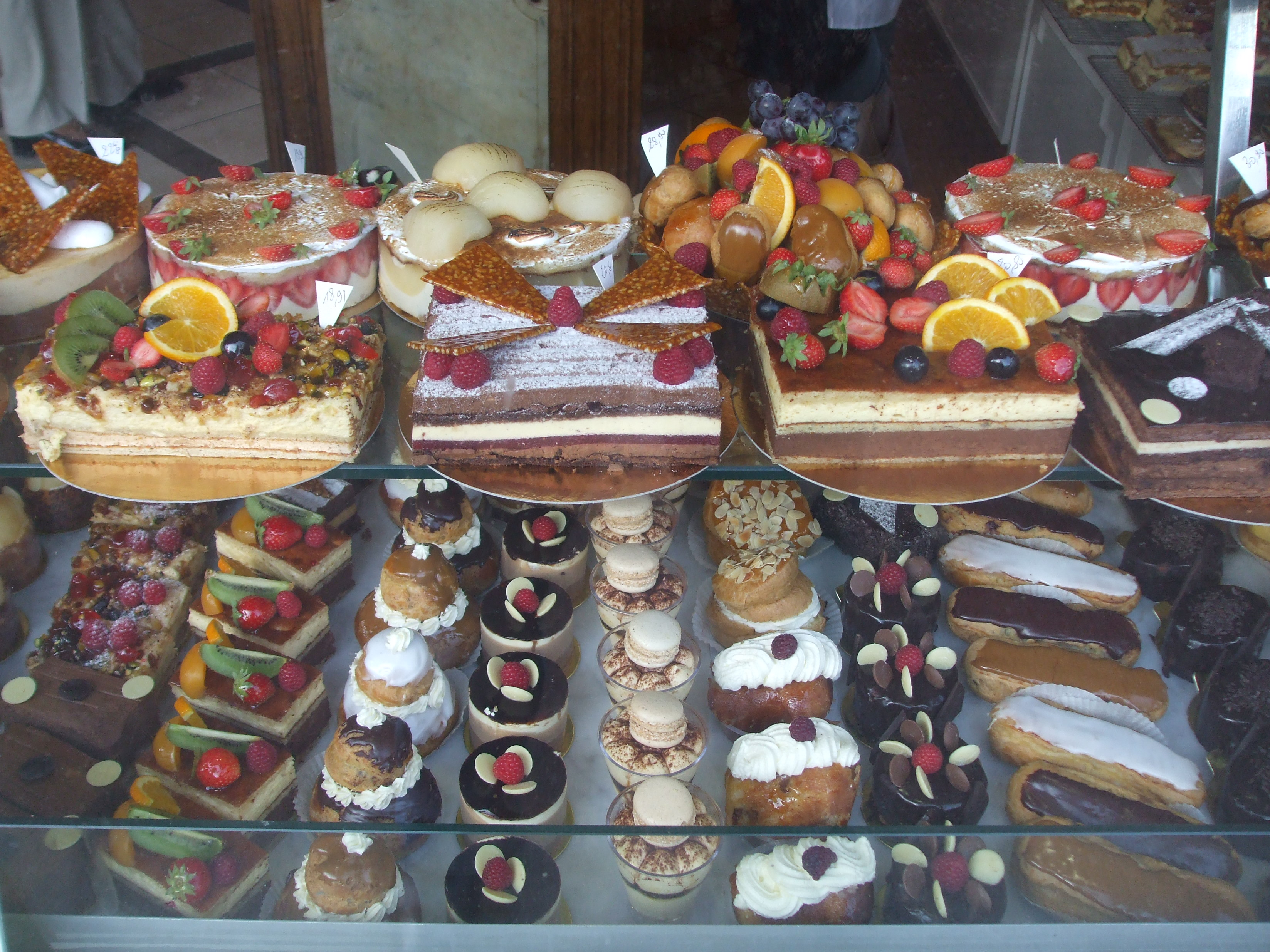 Storefront of the pastry L. Bourbon in Brive-la-Gaillarde, France